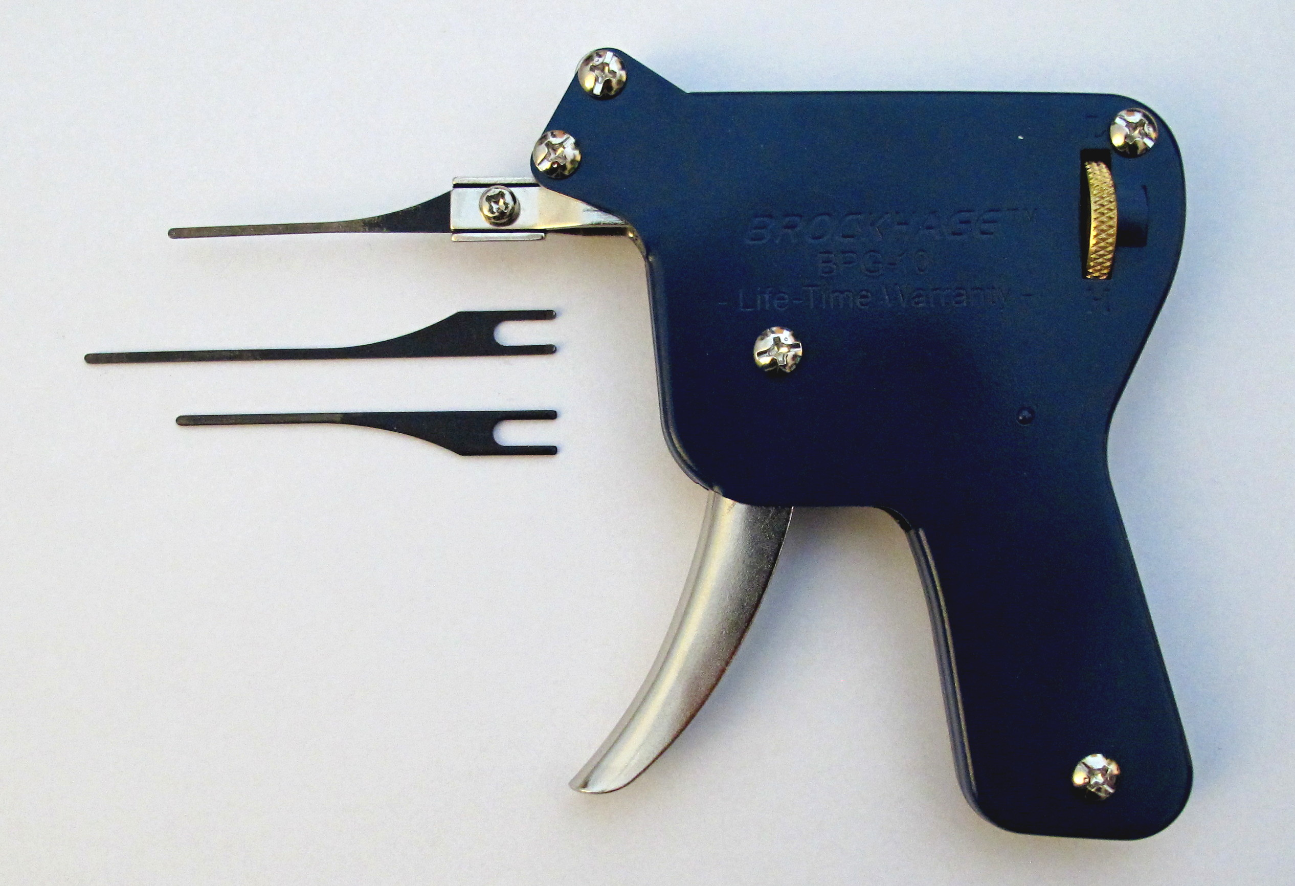 A snap gun, a tool to open a mechanical pin tumbler lock